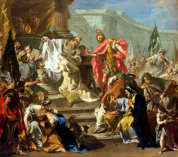 The Sacrifice of Jephthahs Daughter